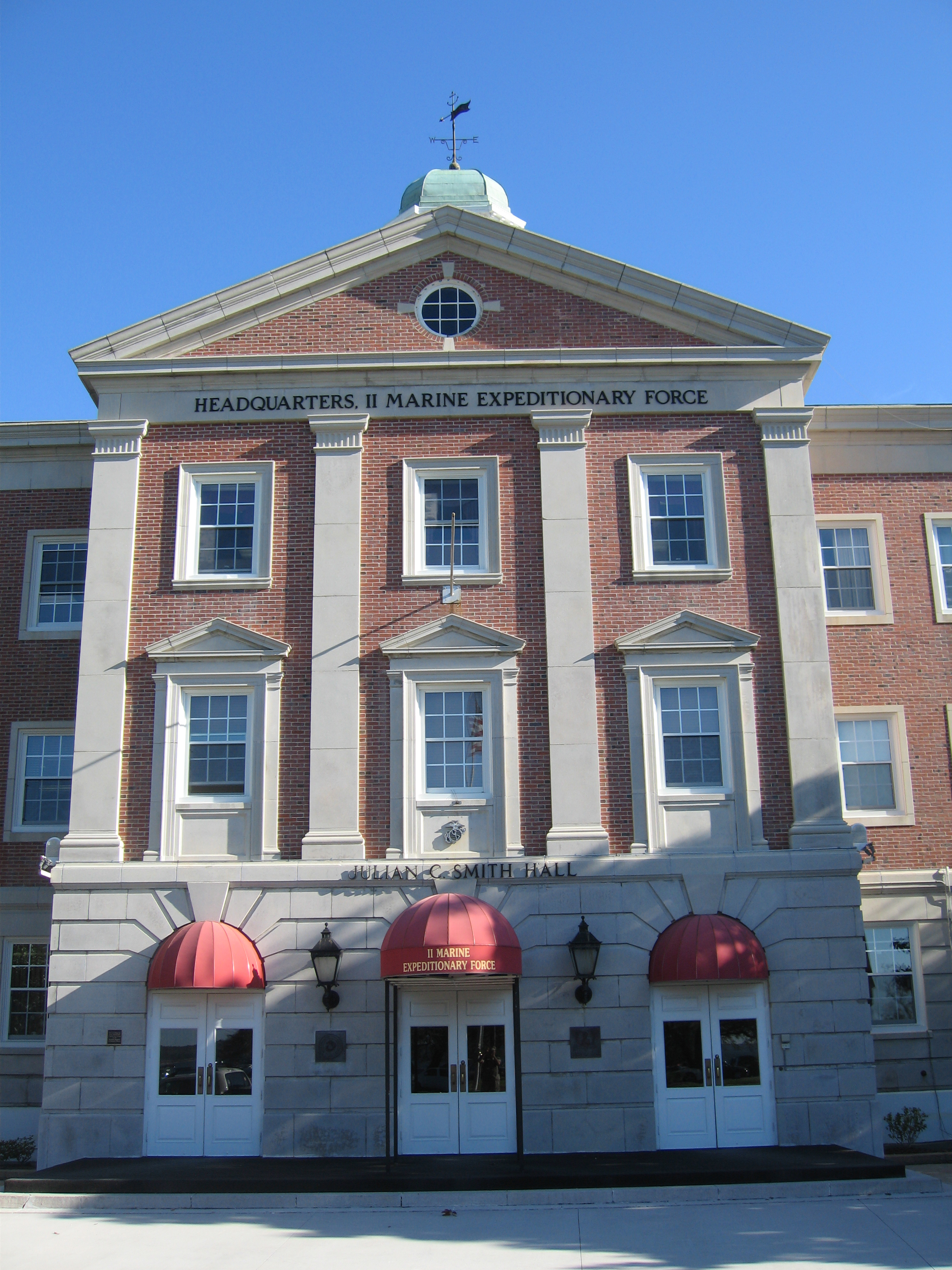 Front view of Julian C. Smith Hall, on Julian C. Smith Street, Marine Corps Base Camp Lejeune, North Carolina. This building was named after General Julian C. Smith, former Commanding General of the 2nd Marine Division during World War II. The building houses the headquaters of the II Marine Expeditionary Force and the 2d Marine Division.